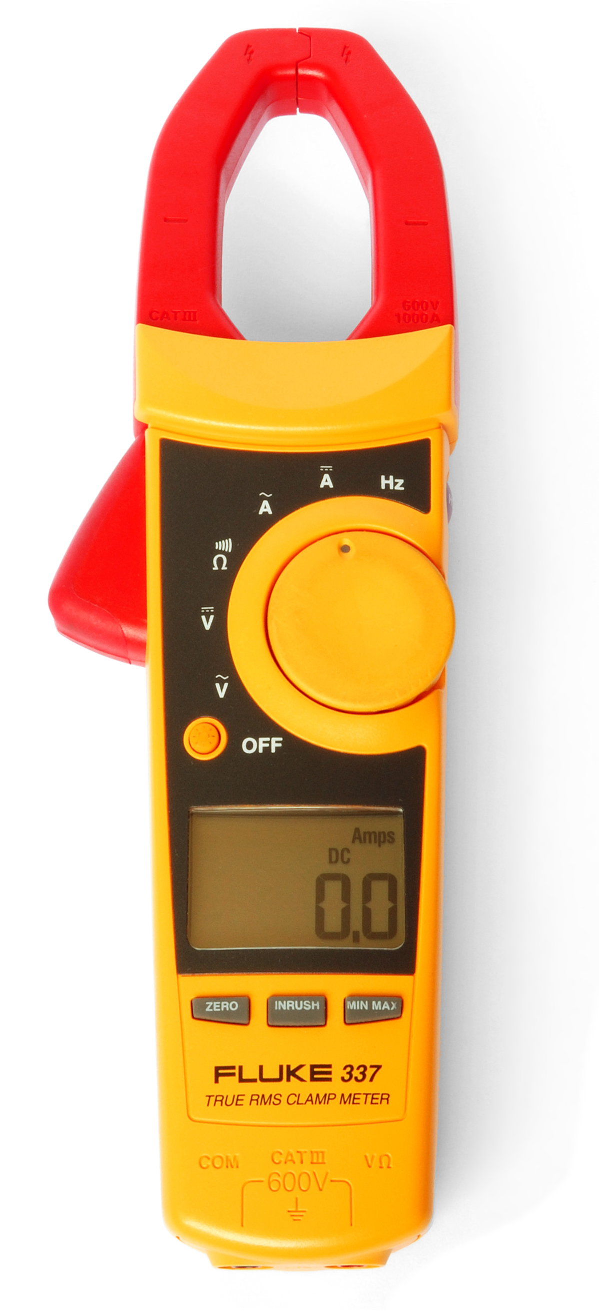 Clamp meter AC/DC, type Fluke 337. Measuring range 0 to 999.9 A.